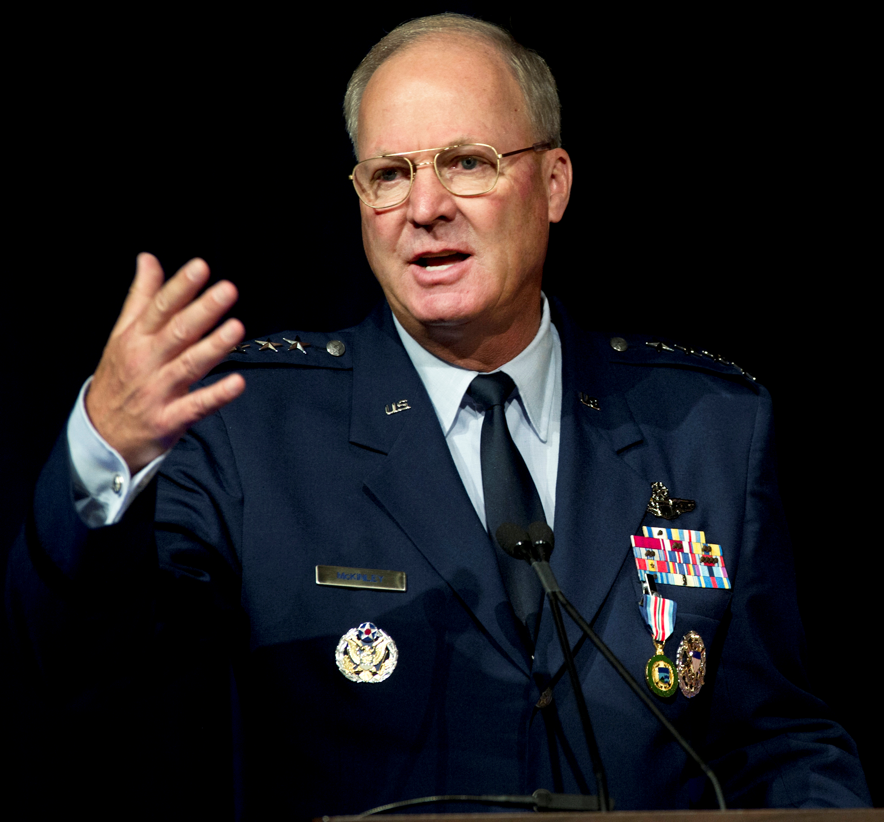 Image of U.S. Air Force General Craig R. McKinley (Retired), outgoing National Guard Bureau Chief, speaks during the change-of-responsibility ceremony.